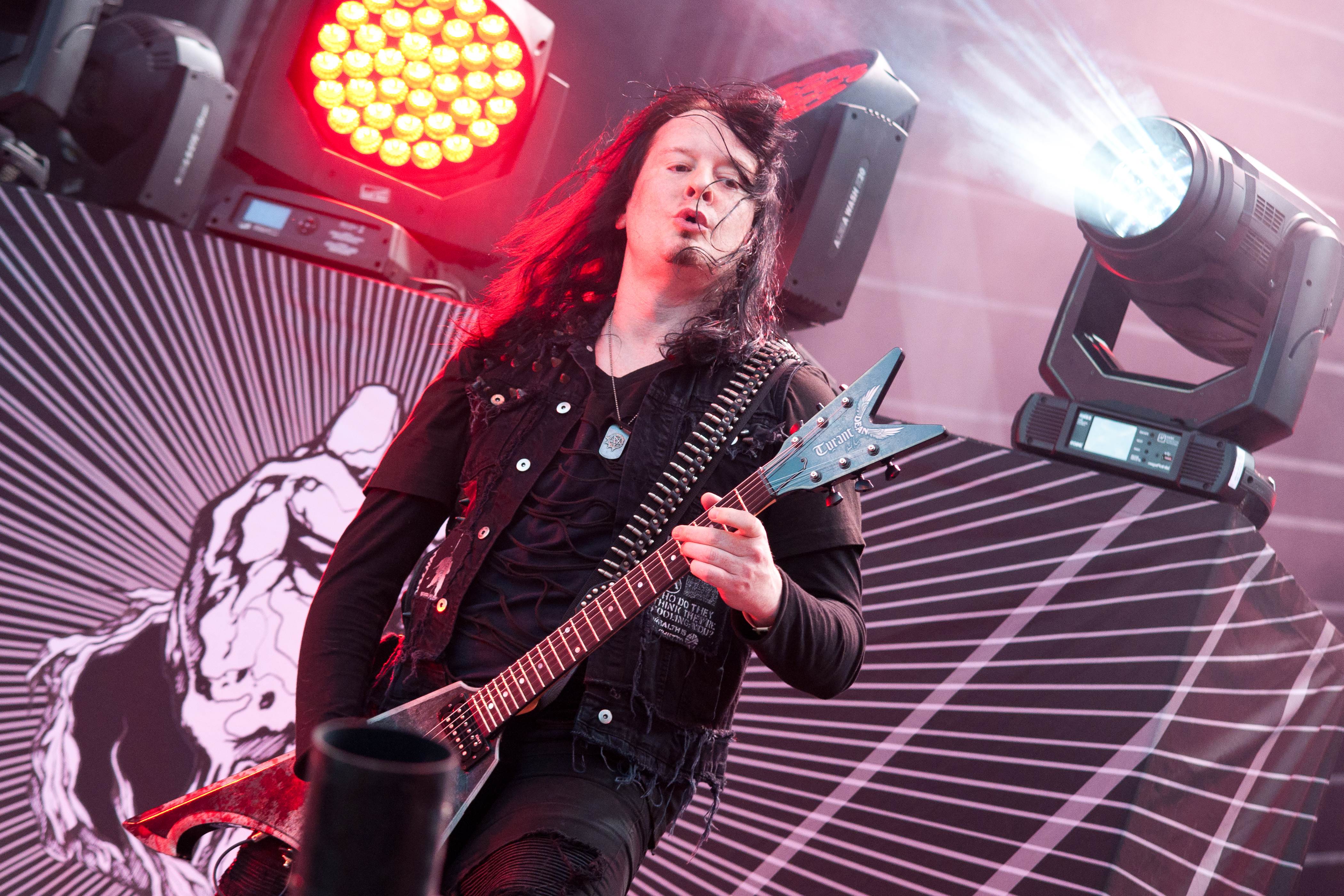 Michael Amott Arch Enemy - Masters of Rock 2018, Vizovice Czech Republic thnaks to Pragokoncert